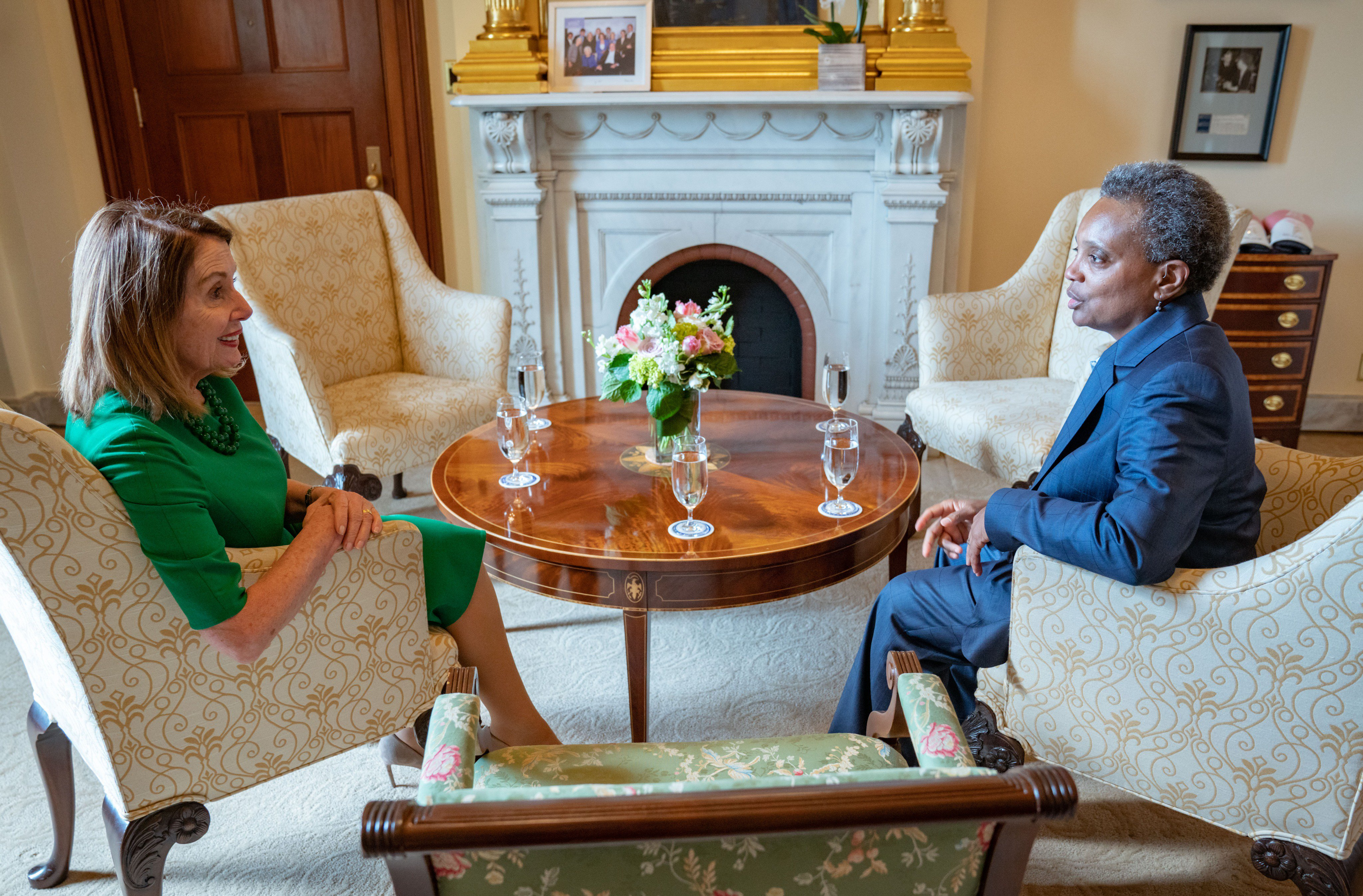 It’s an honor to welcome Chicago Mayor-elect Lightfoot to the U.S. Capitol today for an engaging conversation on issues impacting Chicagoans and communities across the country.